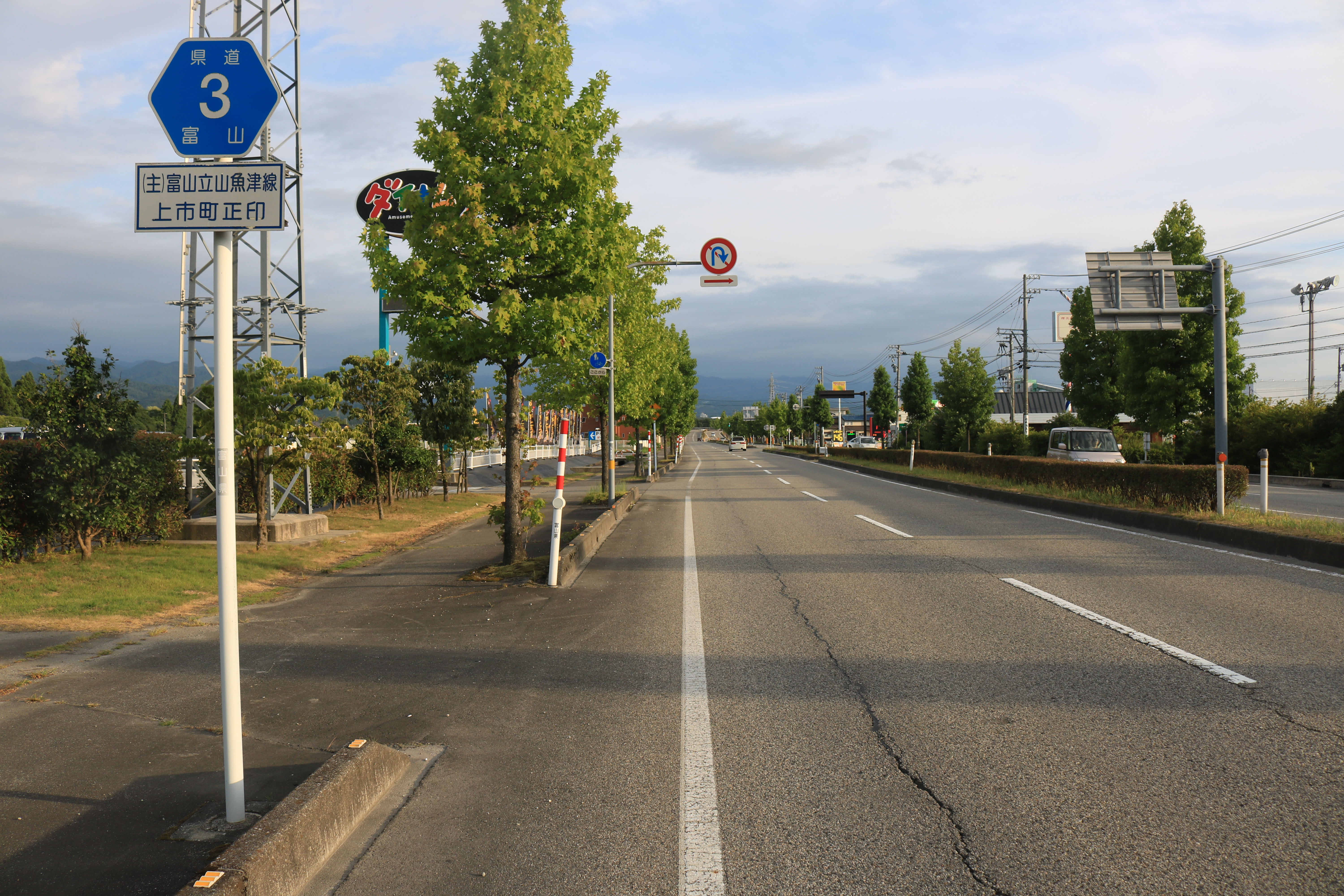 Toyama Prefectural Road Route 3 in Shoin, Kamiichi, Toyama Prefecture, Japan.